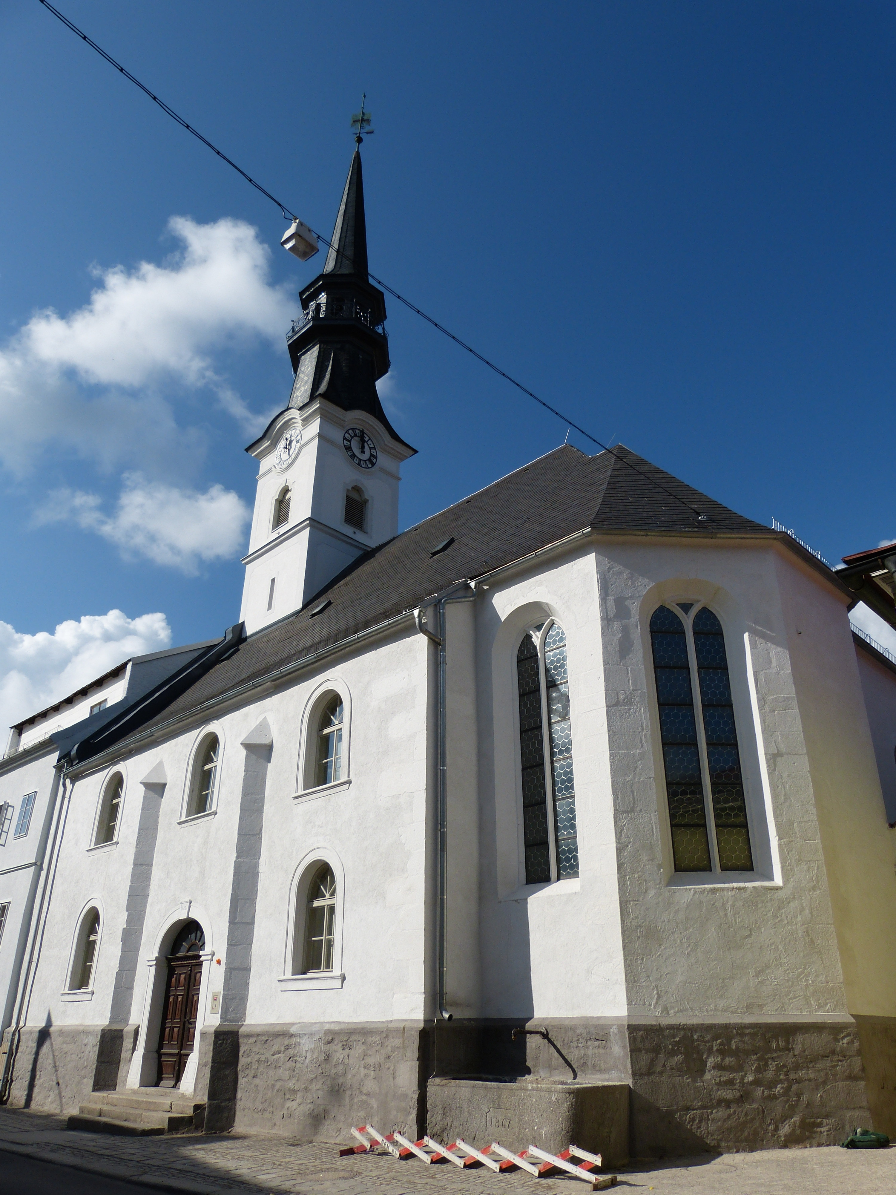 Bad Leonfelden ( Upper Austria ). Hospital church ( 1517 ).